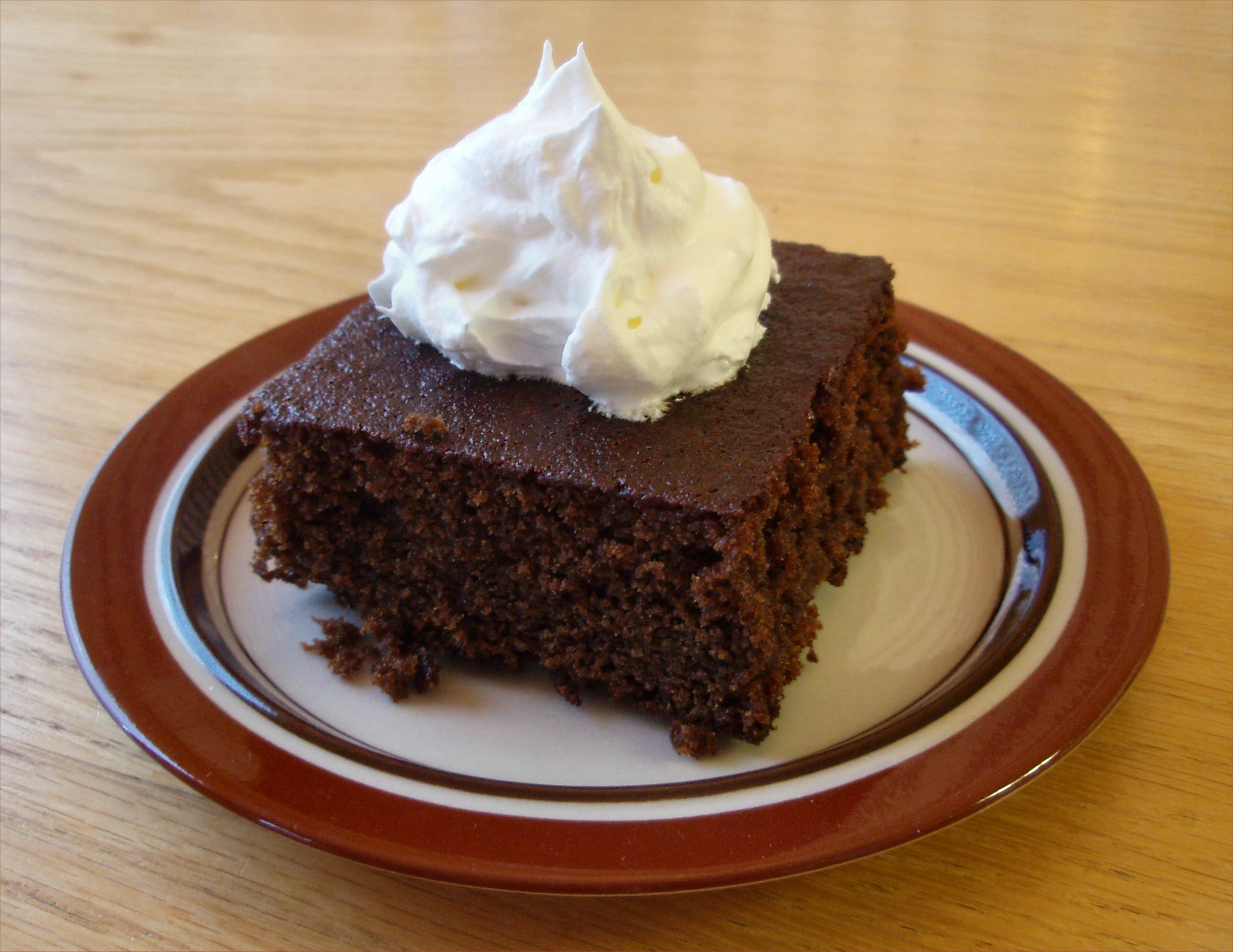 Gingerbread with whipped cream